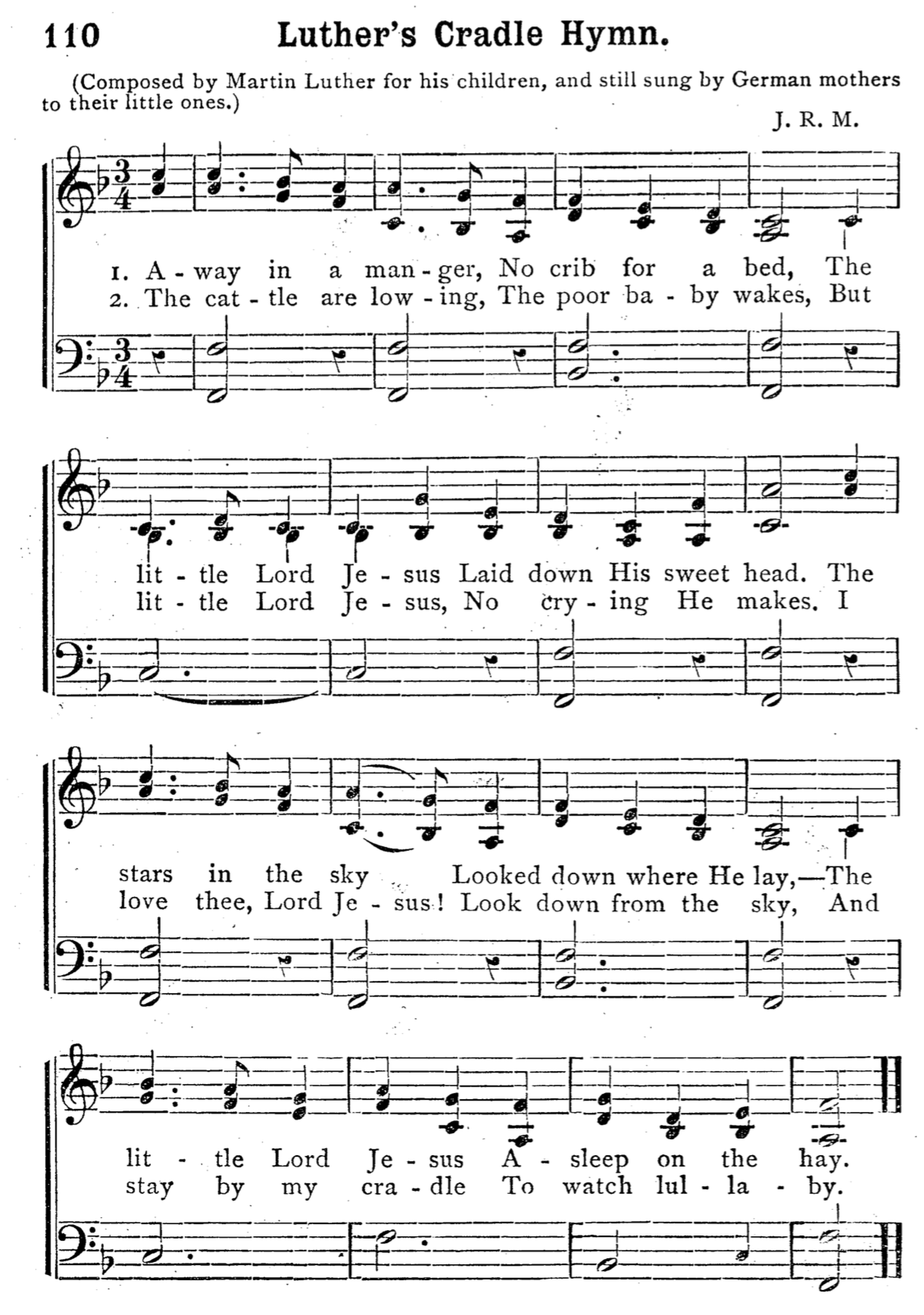 First publication of James R. Murray's melody for "Away in a Manger" (1887)